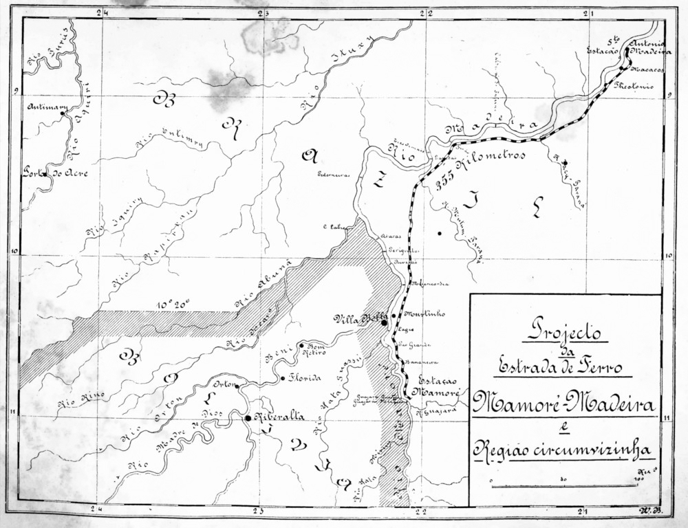 Map Madeira-Mamoré Railway Co., 1904. No Scale.